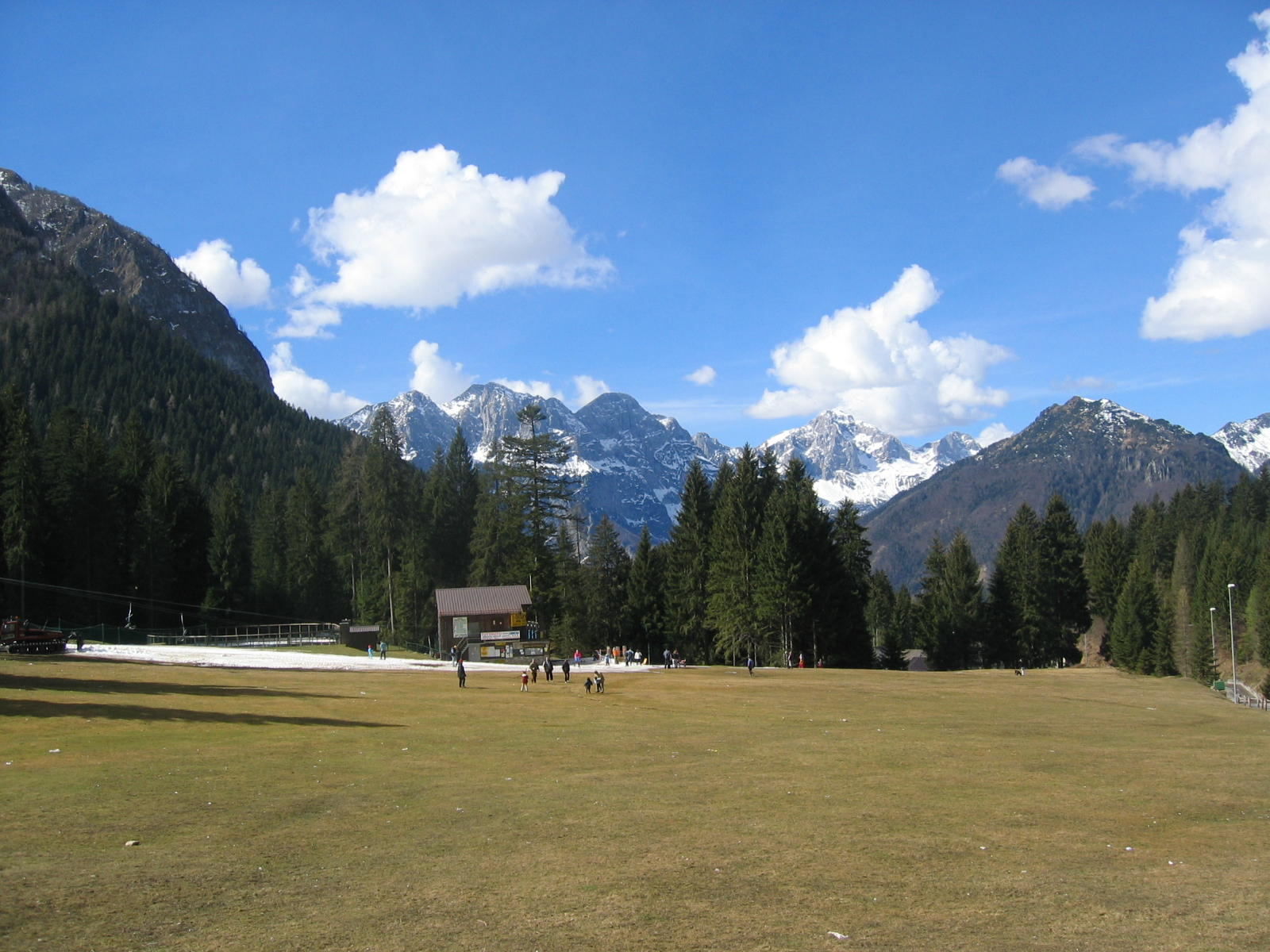 Gromo (BG), Lombardy, Italy - Spiazzi